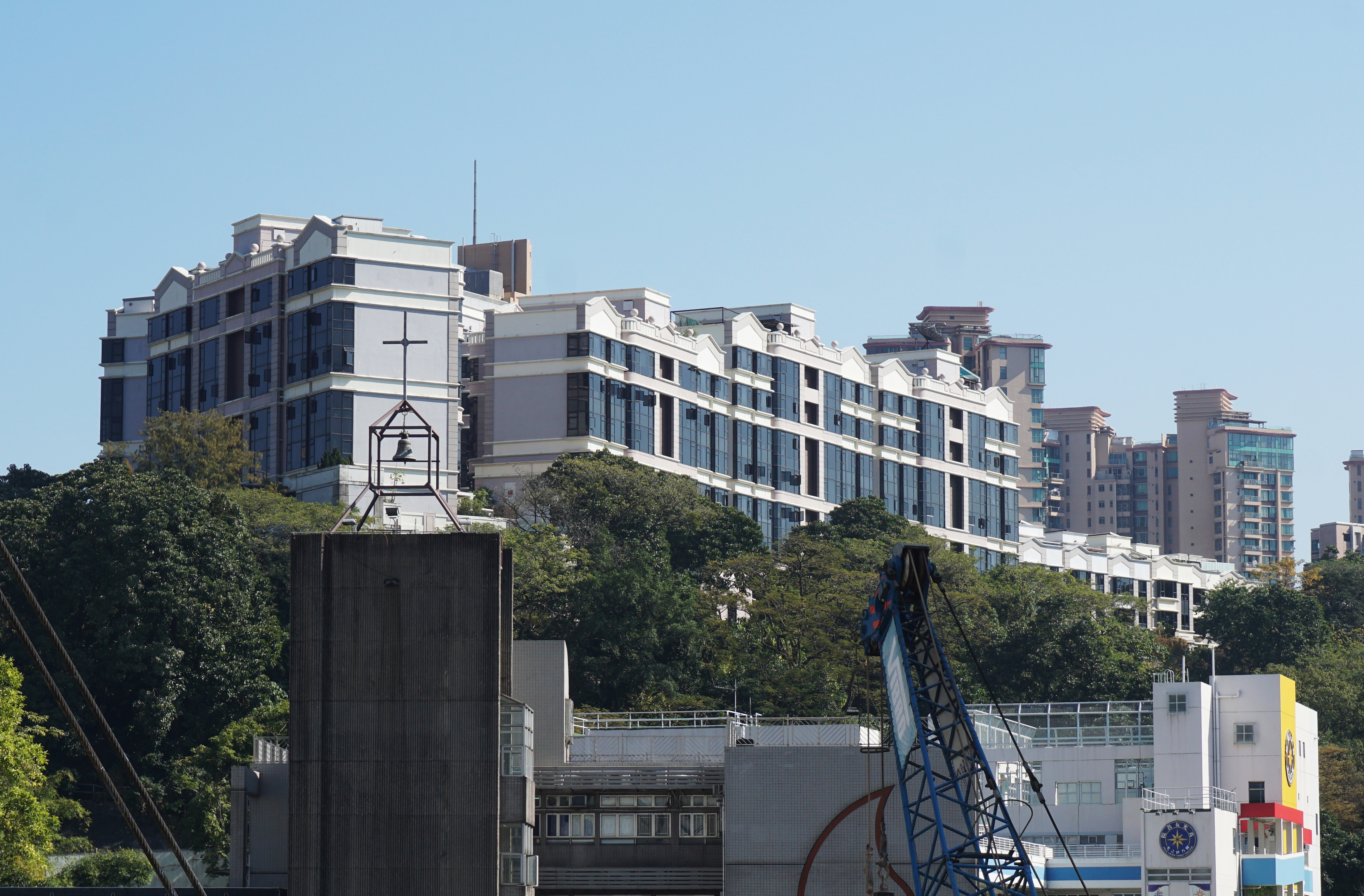 King's Park Hill in Yau Ma Tei, Hong Kong.